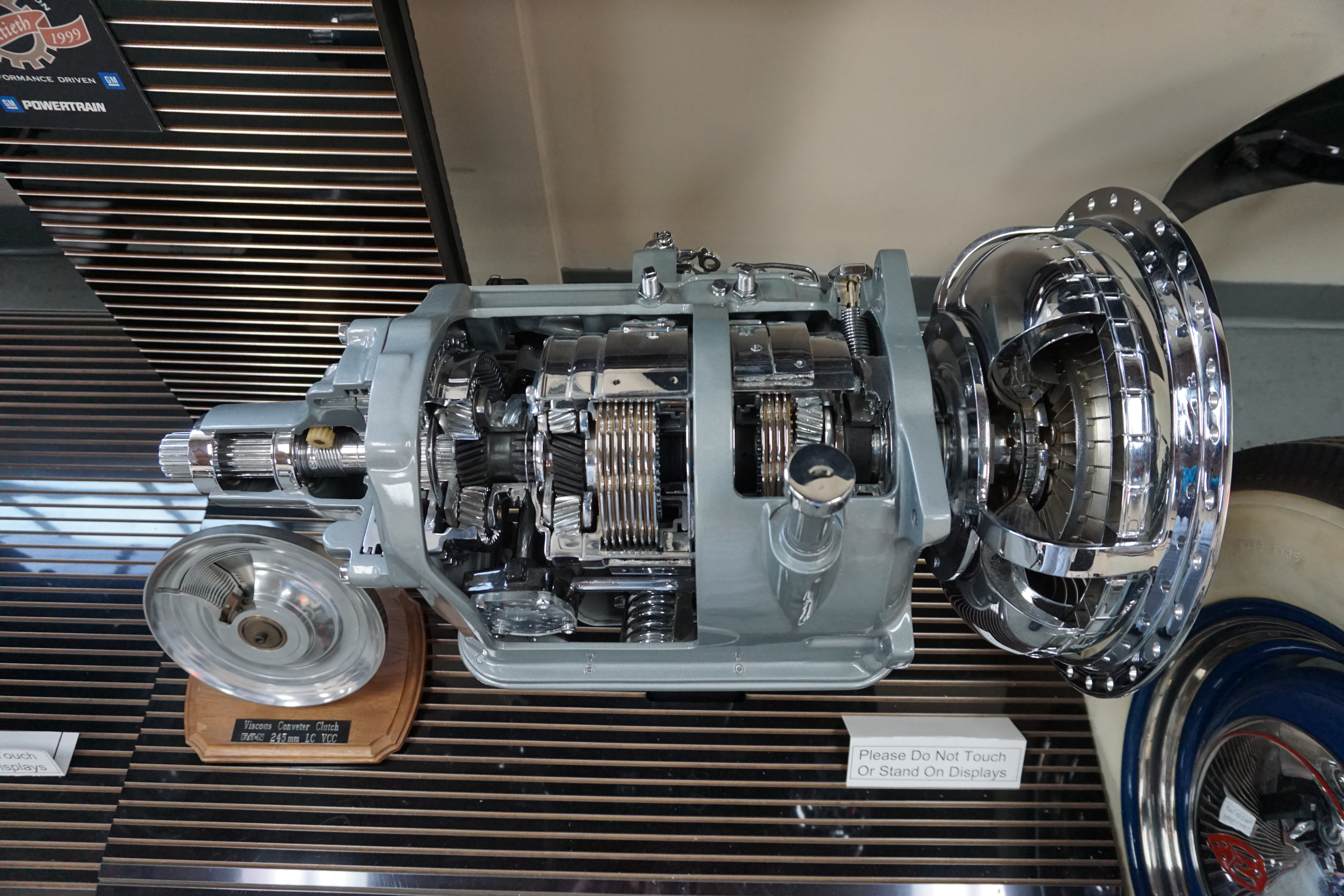 A 1939-56 Hydra-Matic Drive transmission at the Ypsilanti Automotive Heritage Museum in Ypsilanti, Michigan (United States).